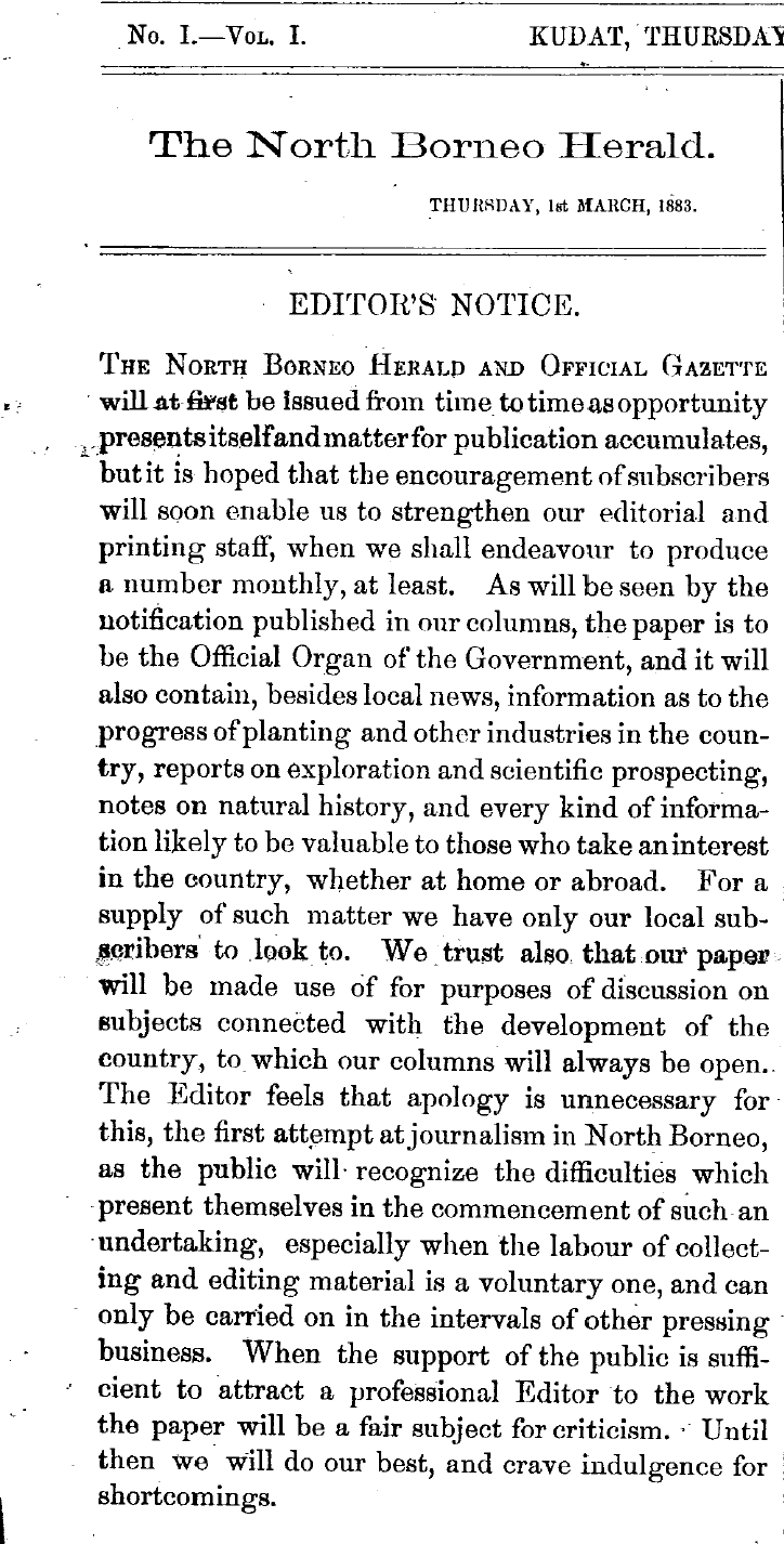 British North Borneo Herald, No. 1, 1883, Kudat: Editors Notice from March 1st 1883, Sandakan